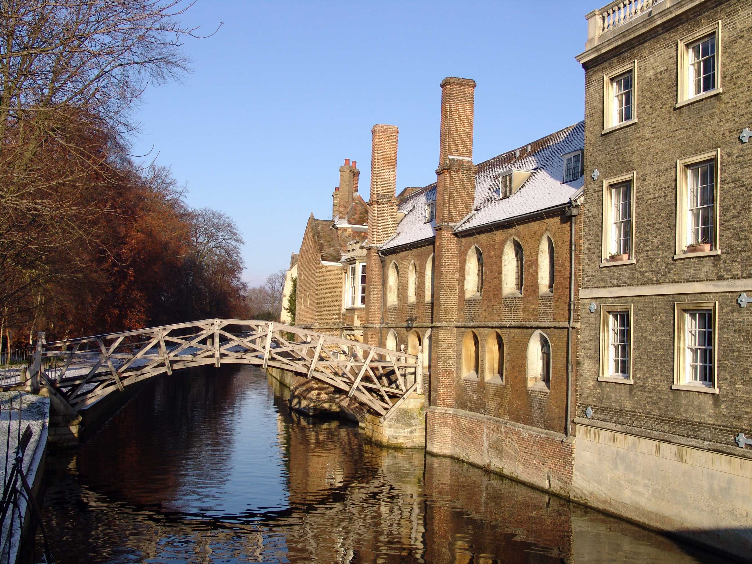 The Mathematical Bridge over the River Cam at Queen's College, Cambridge, England